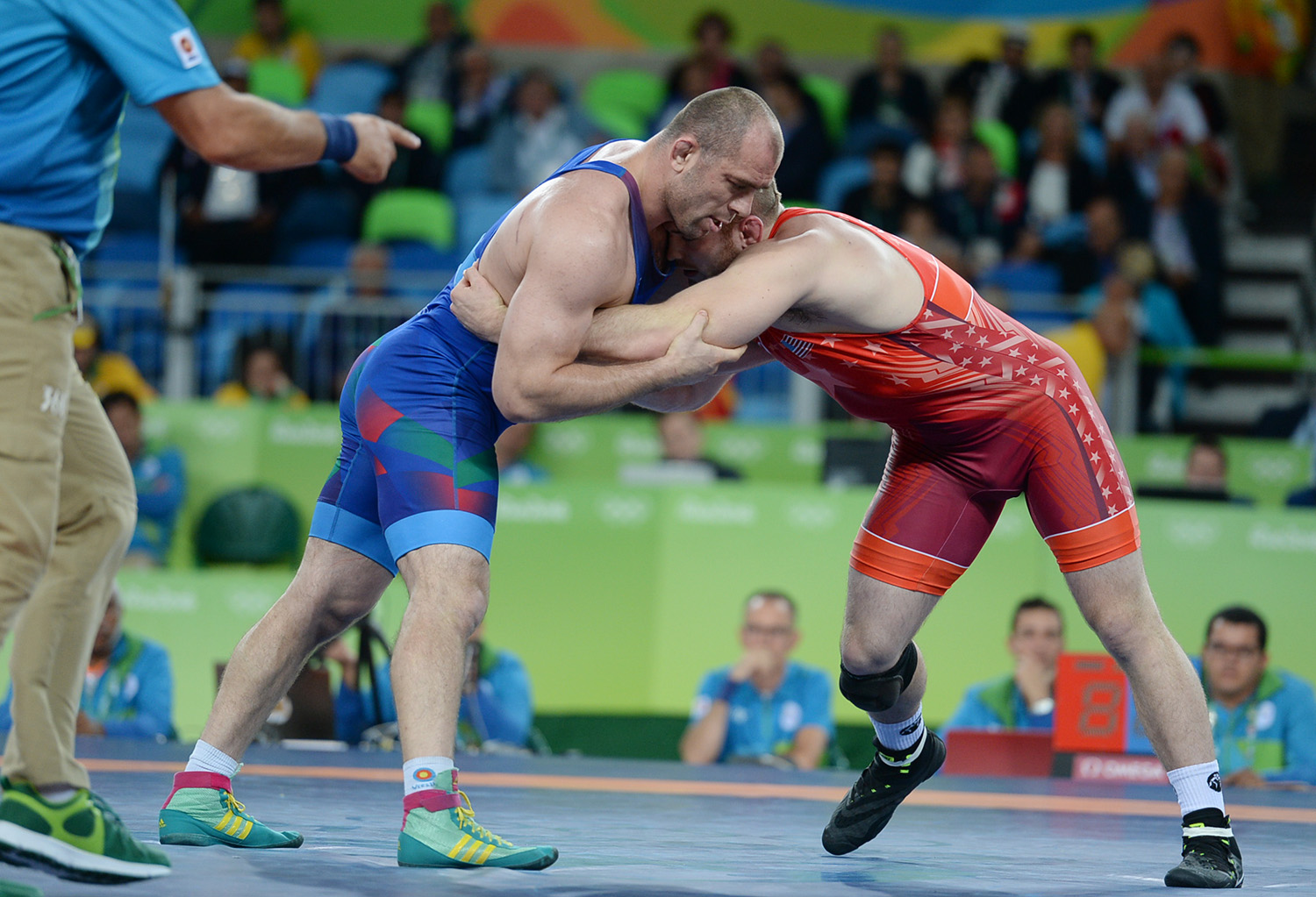 Wrestling at the 2016 Summer Olympics, Gazyumov vs Snyder